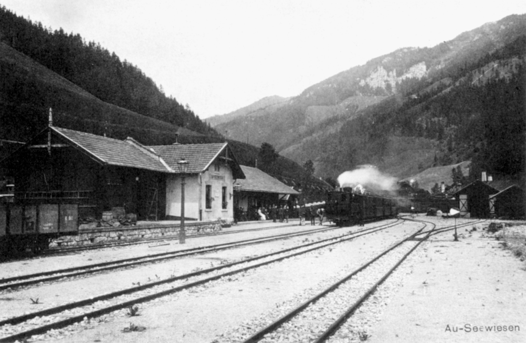 Au-Seewiesen station, original terminus of the Kapfenberg narrow gauge line in Styria